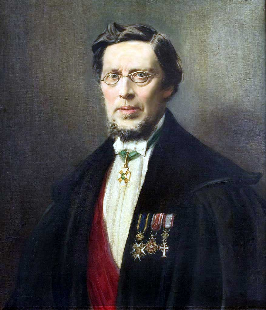 Simon Vissering (1818-1888) Nederlandse econoom, statisticus en politicus